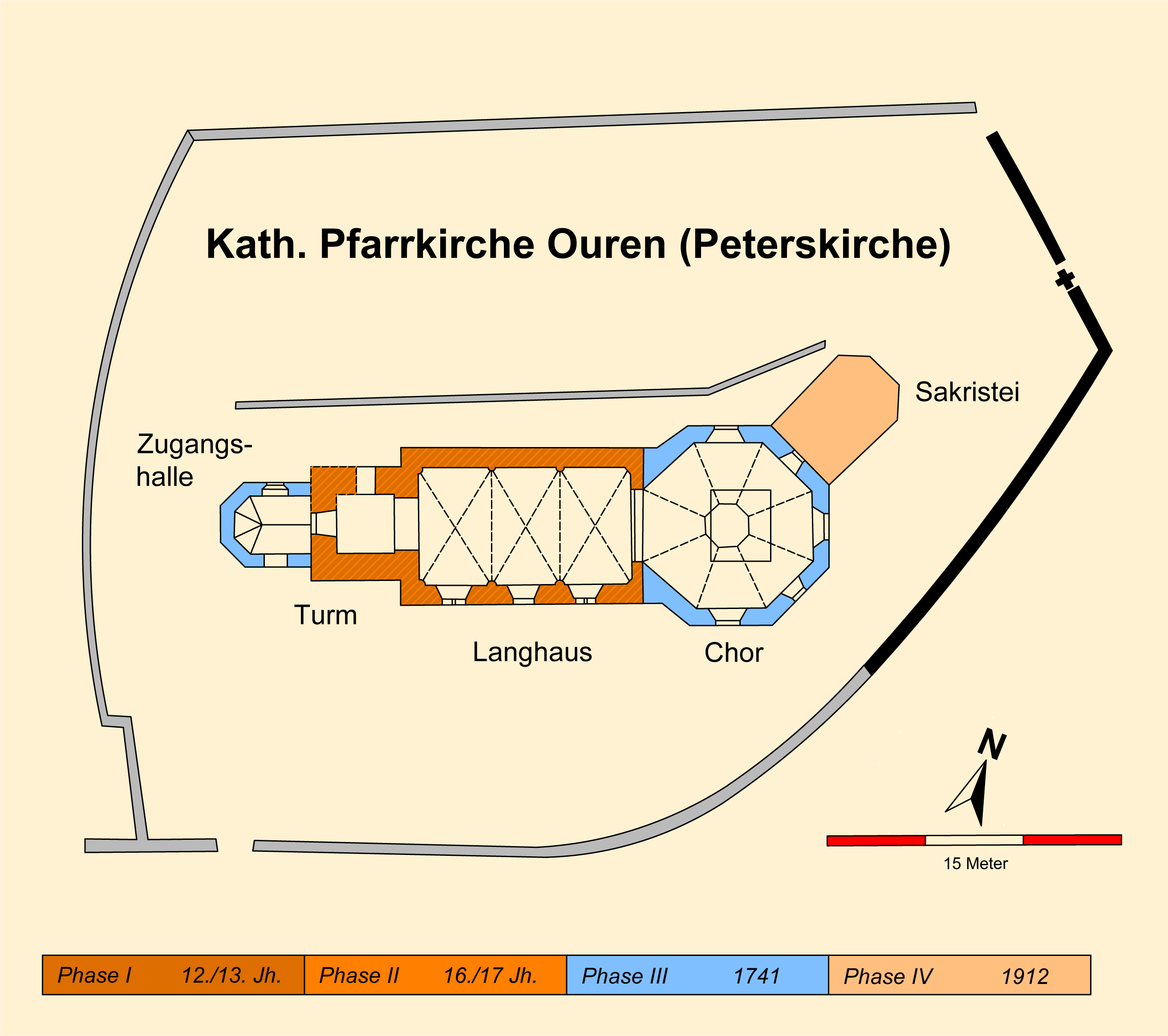 Footprint of St. Peter and Paul Church Ouren (Burg-Reuland)